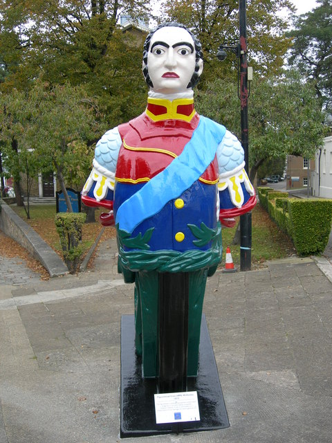 Figurehead from HMS Wellesley, at Chatham Historic Dockyard, UK.